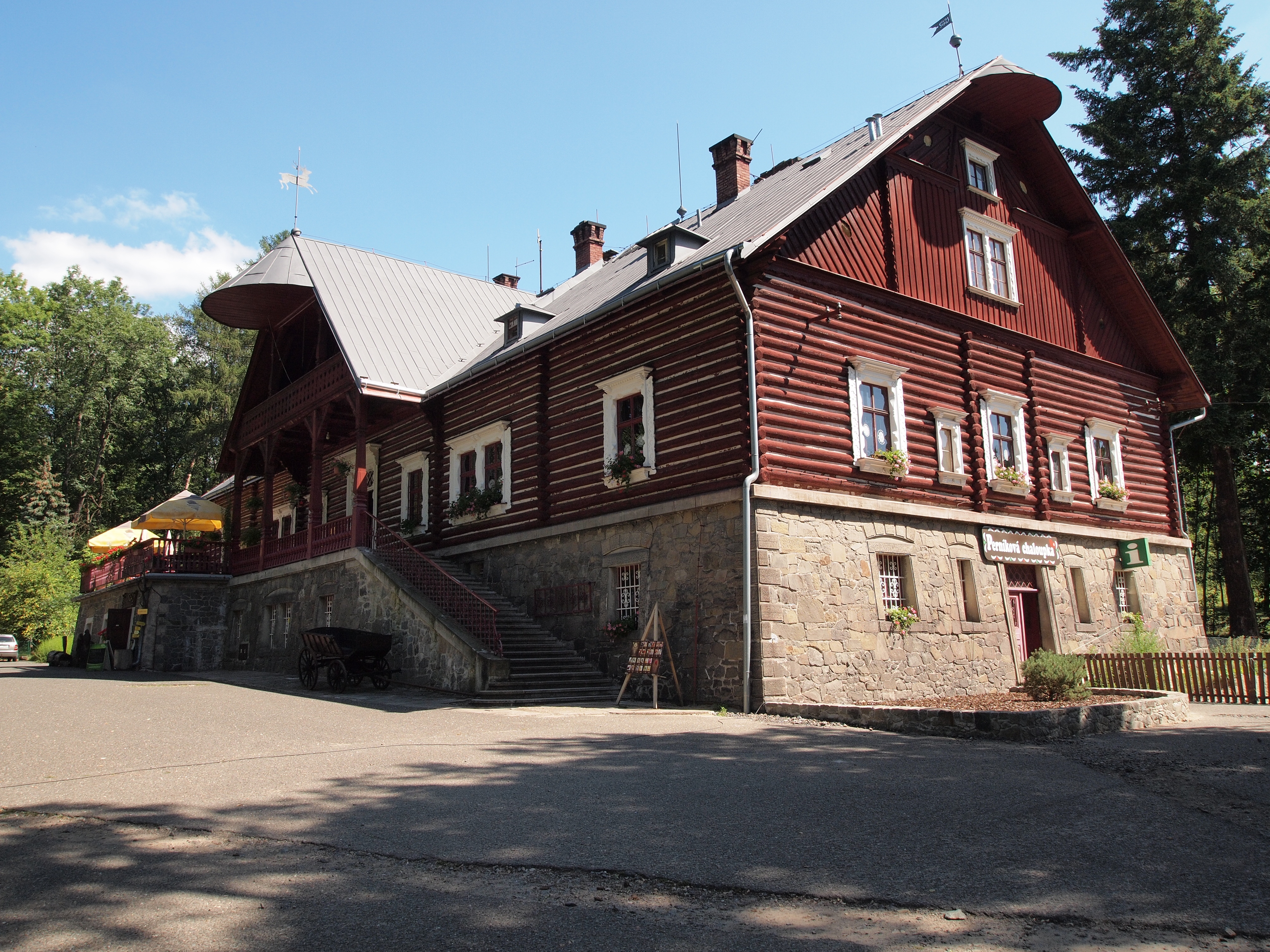 Perníková chaloupka (Gingerbread House) near the castle Kuneticka Hora